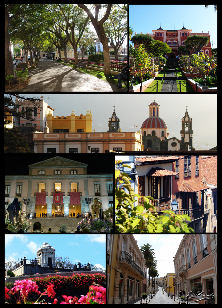 Villa de La Orotava, Tenerife (Canary Islands, Spain)